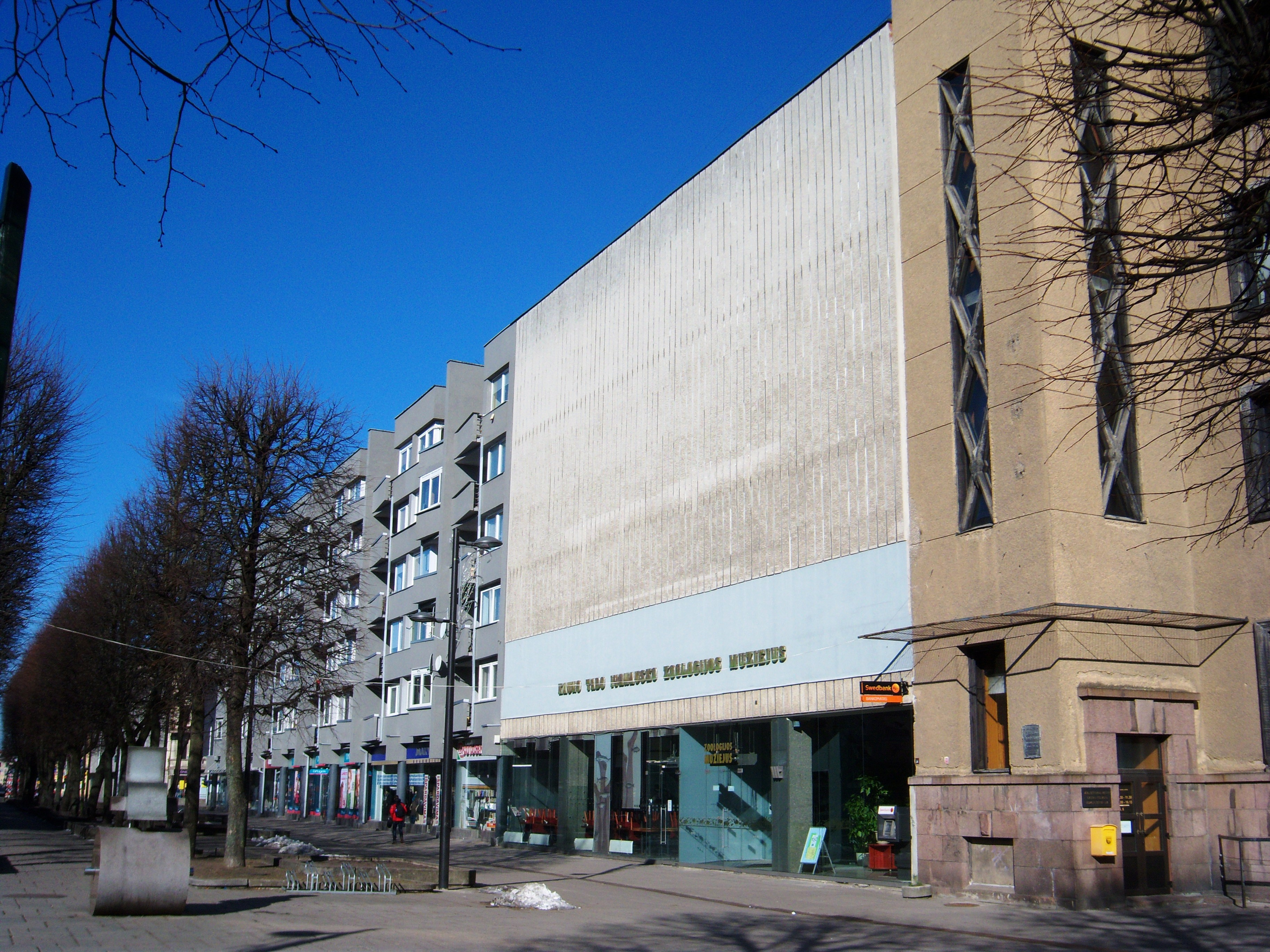 Kaunas Tadas Ivanauskas zoological museum, Lithuania